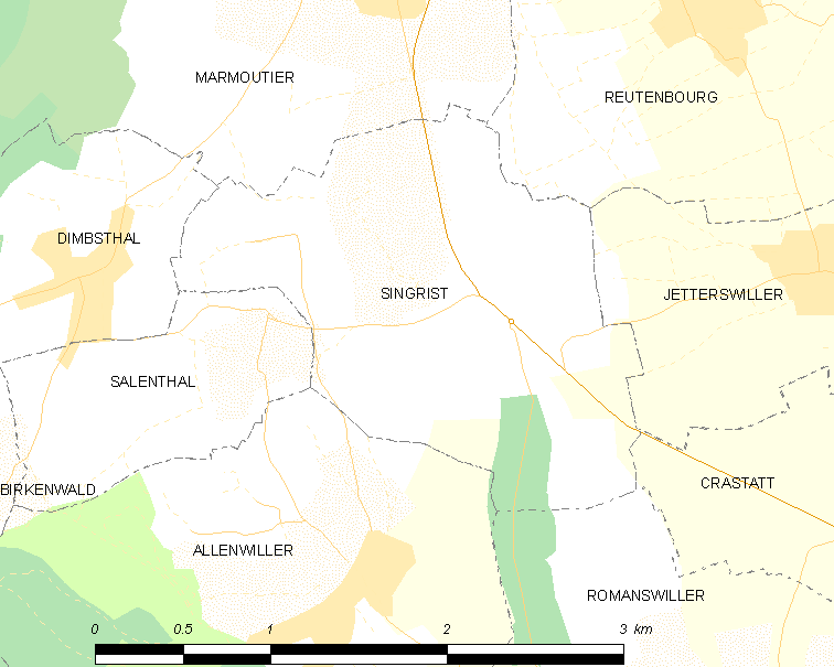 Map of French municipality